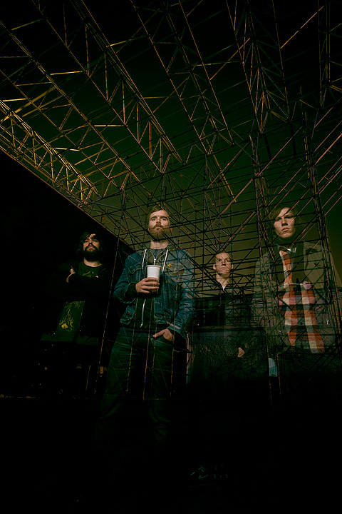 Photo of Rise and Fall in Vienna, Austria